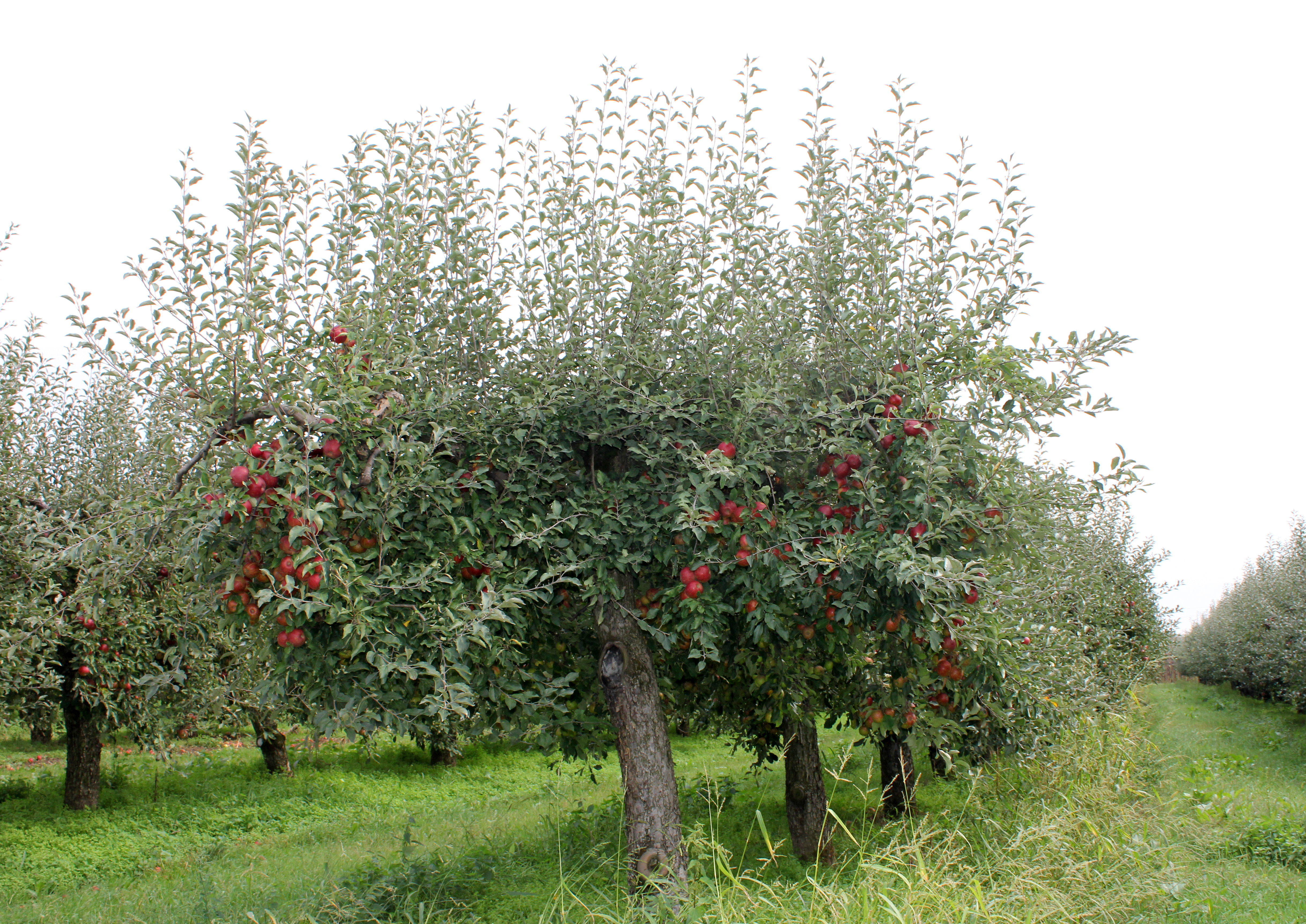 apple orchard with the cultivar 'Naményi Jonathan'.